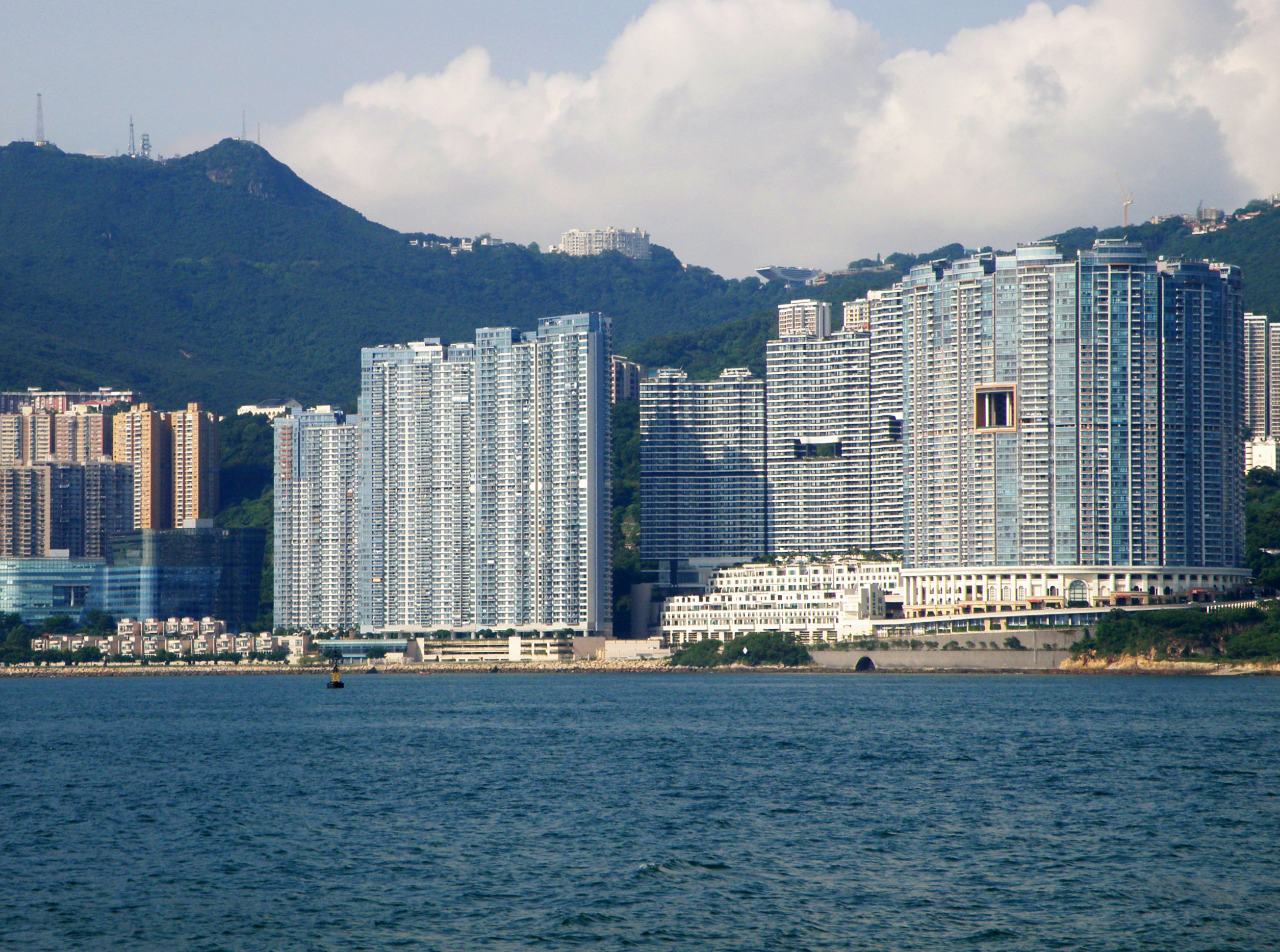 Residence Bel-Air in Pok Fu Lam, Hong Kong.